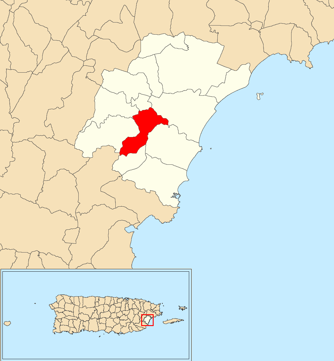 Cataño, Humacao, Puerto Rico locator map